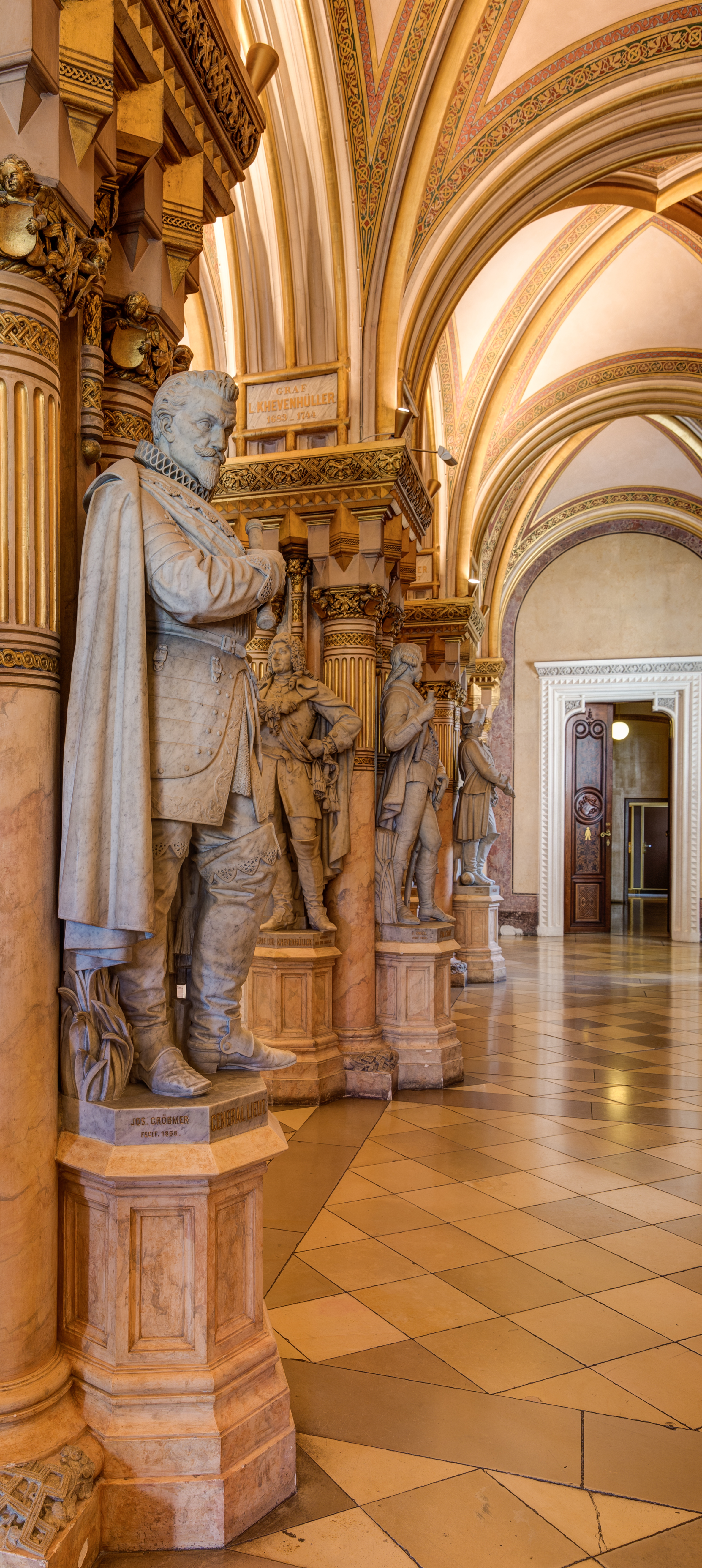 Johann Tserclaes, Count of Tilly (1559-1632) in the "Field marshal"-hall of the Museum of Military History - Military History Institute in Vienna (German: Heeresgeschichtliche Museum – Militärhistorische Institut), is the leading museum of the Austrian Armed Forces, which documents the history of Austrian military affairs through a wide range of exhibits.